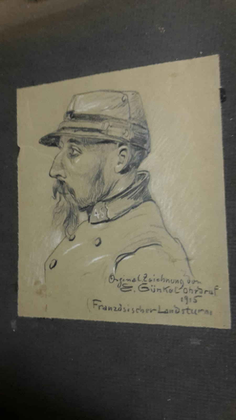 Ernst Günkel